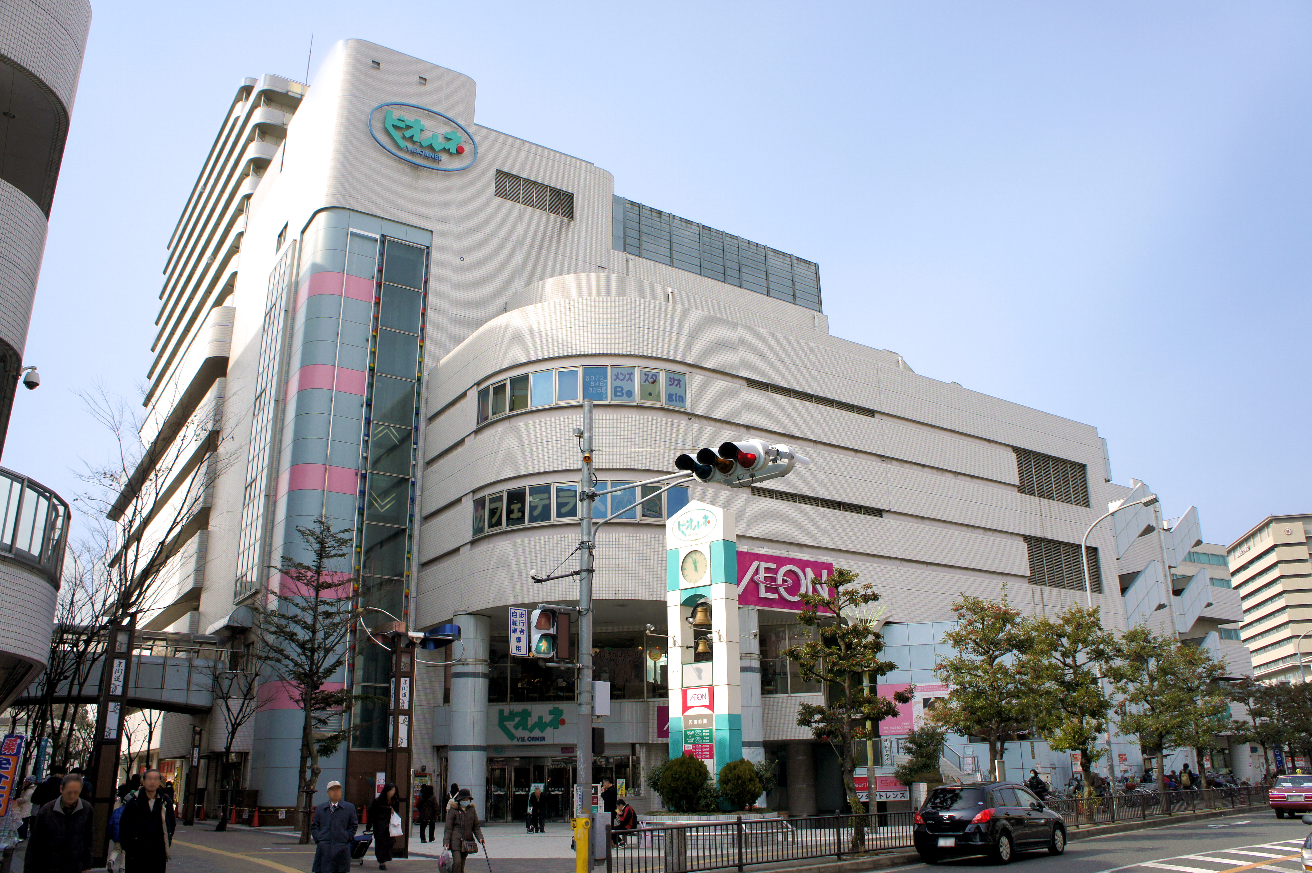 VIE.ORNER, 7-1 Okamotocho Hirakata-City Osaka Japan.